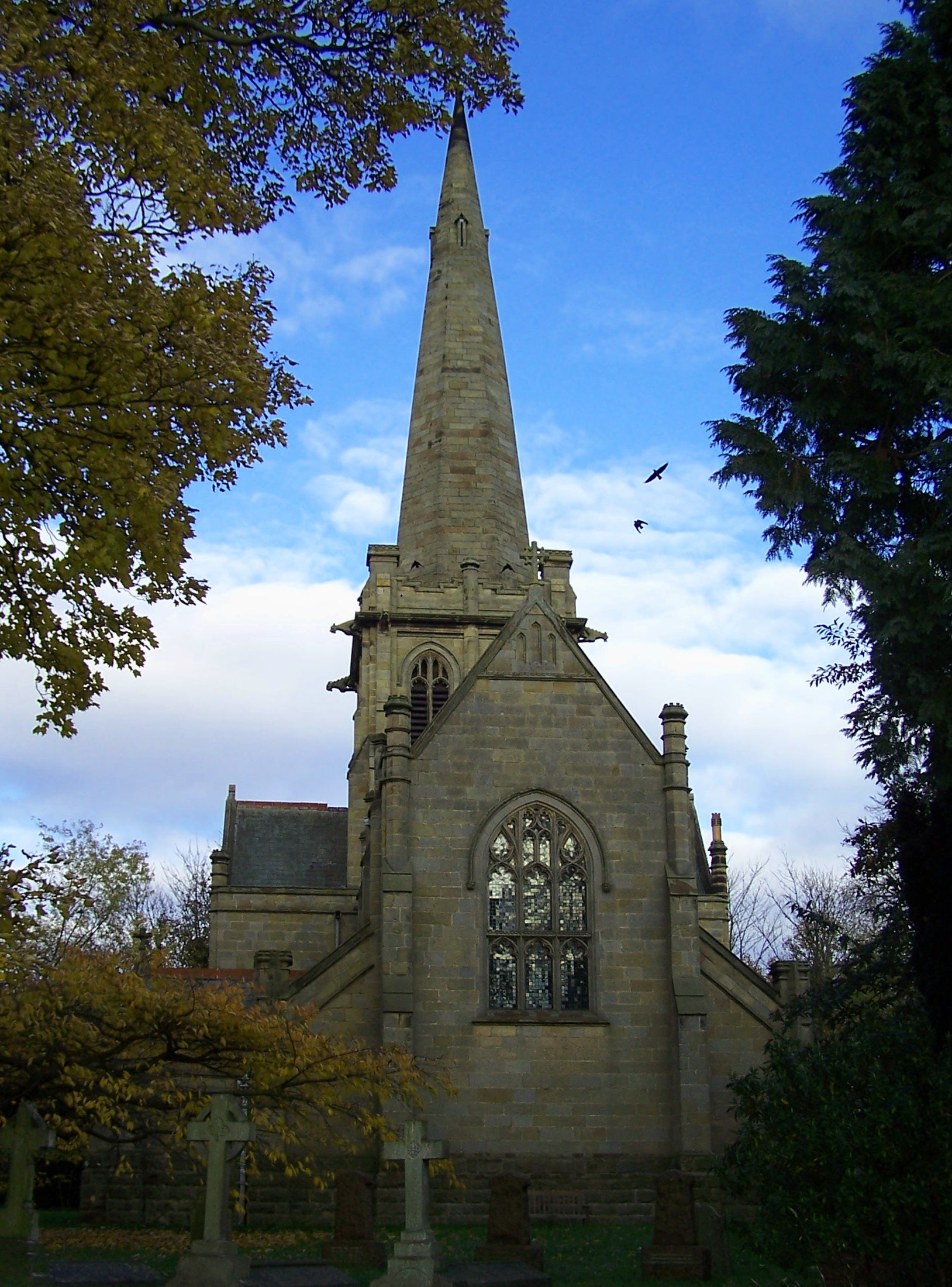 Parish church of St John the Divine, Colston Bassett, Nottinghamshire